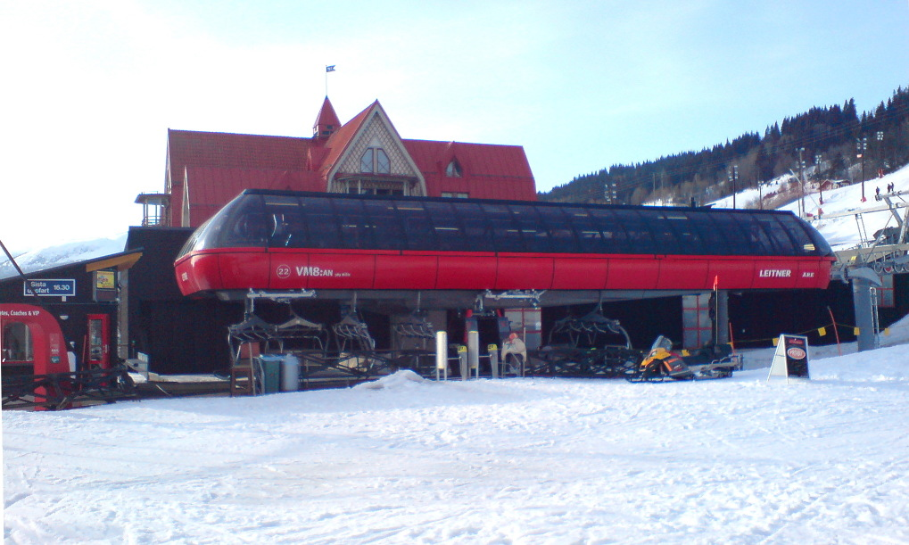 Valley station of the hybrid lift "VM8:an" in Åre ski area.